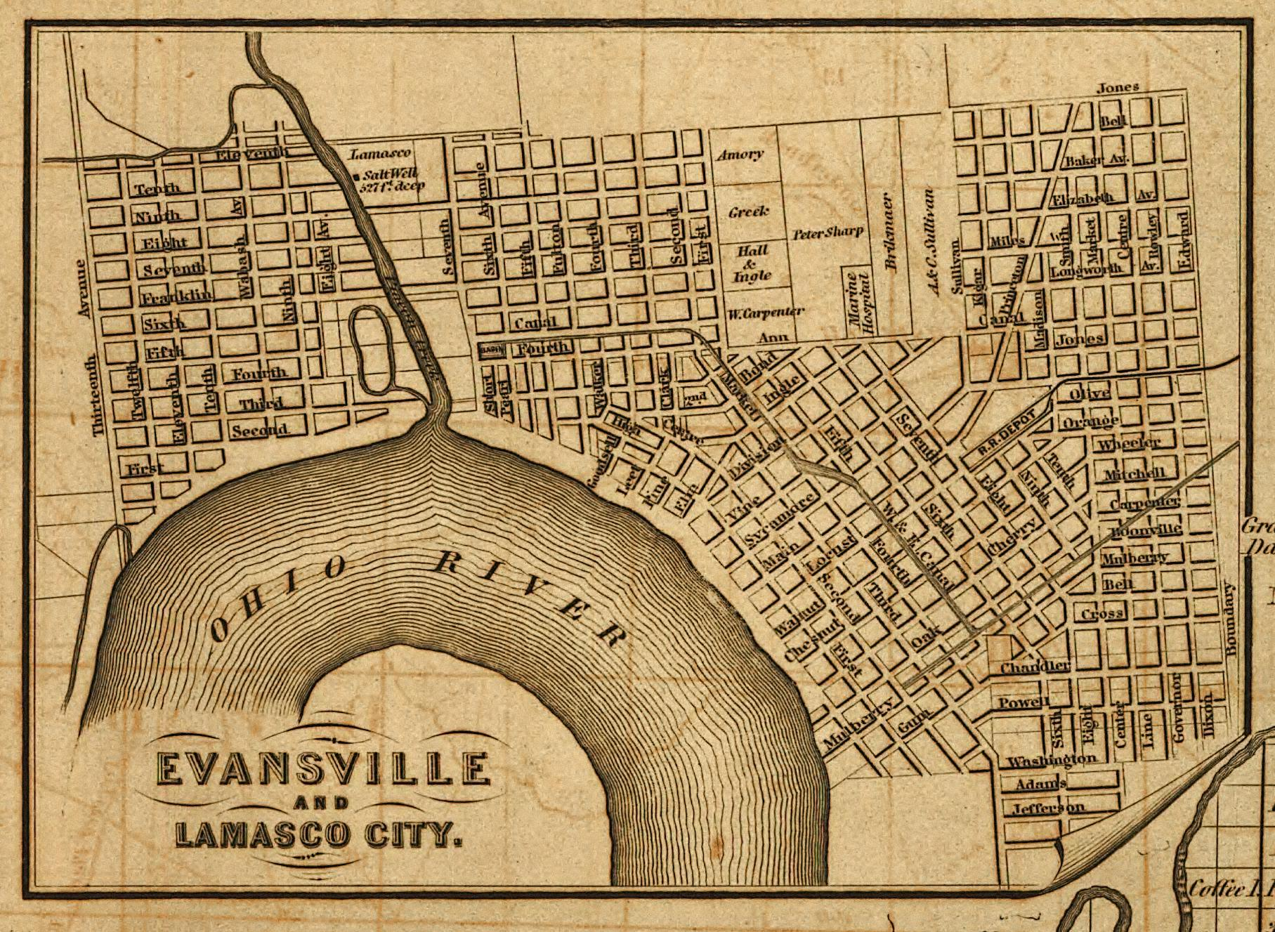 Street map of Evansville and Lamasco from 1852